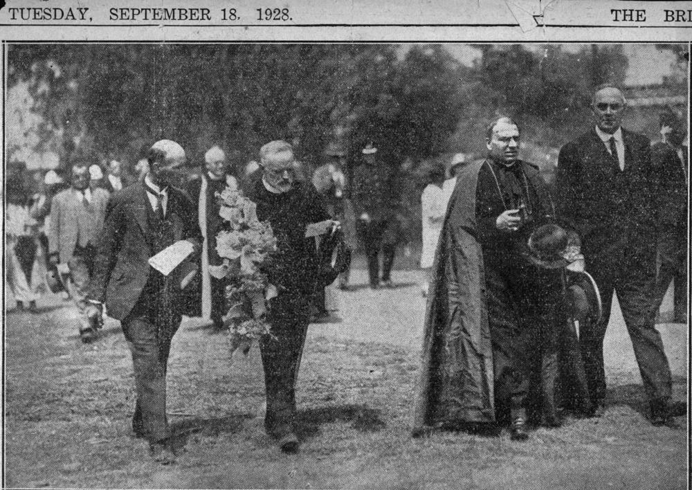 Cardinal Cerretti, the Papal Legate, Toowong, 1928 Cardinal Cerretti the Papal Legate walking to place a wreath of remembrance in the Toowong Cemetery. Cardinal Cerretti is wearing the cloak, Canon D. J. Garland, carrying the wreath. On the Cardinal's left is the Premier W. McCormack. The other man on the left of the group is Mr J. D. O'Hagan. (Description from Brisbane Courier 18 September 1928.).